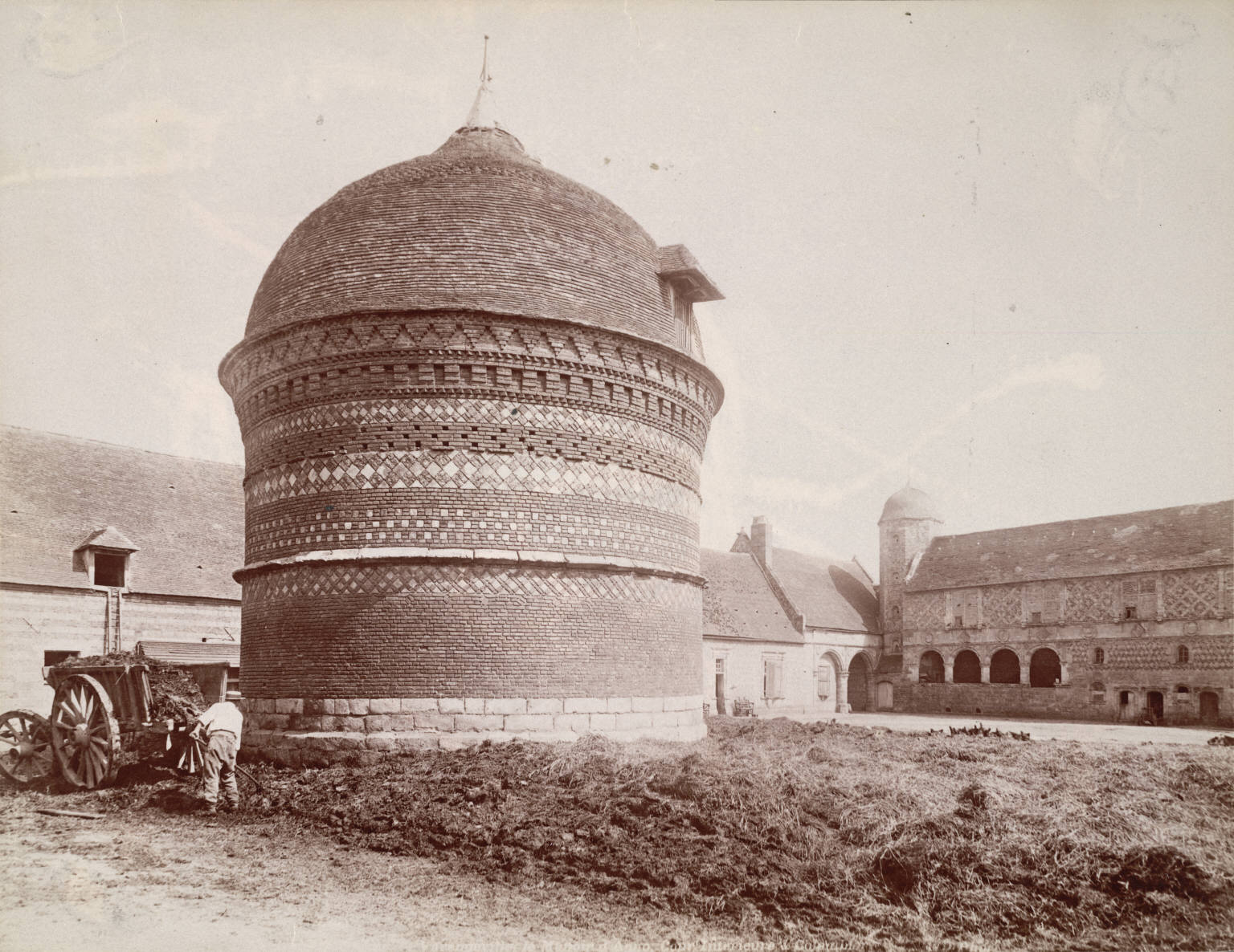 Varengeville-sur-Mer, France. Ango Manor